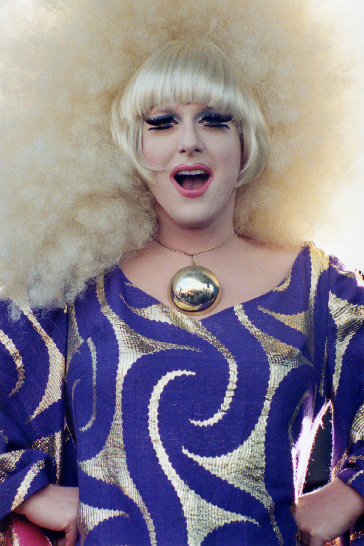 Lady Bunny photographed by Tai Seef during Wigstock 2001